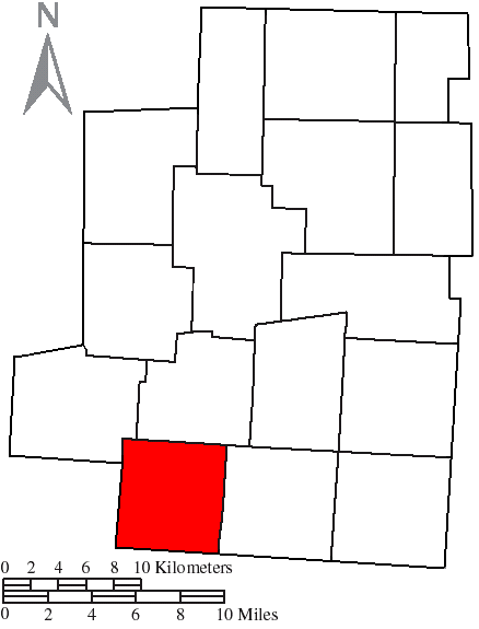 Originally created by the US Census. Modified by myself to highlight the township.